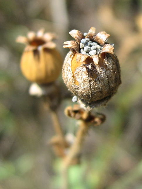 Silene latifolia fruit.The seeds are pushed up by a larva.